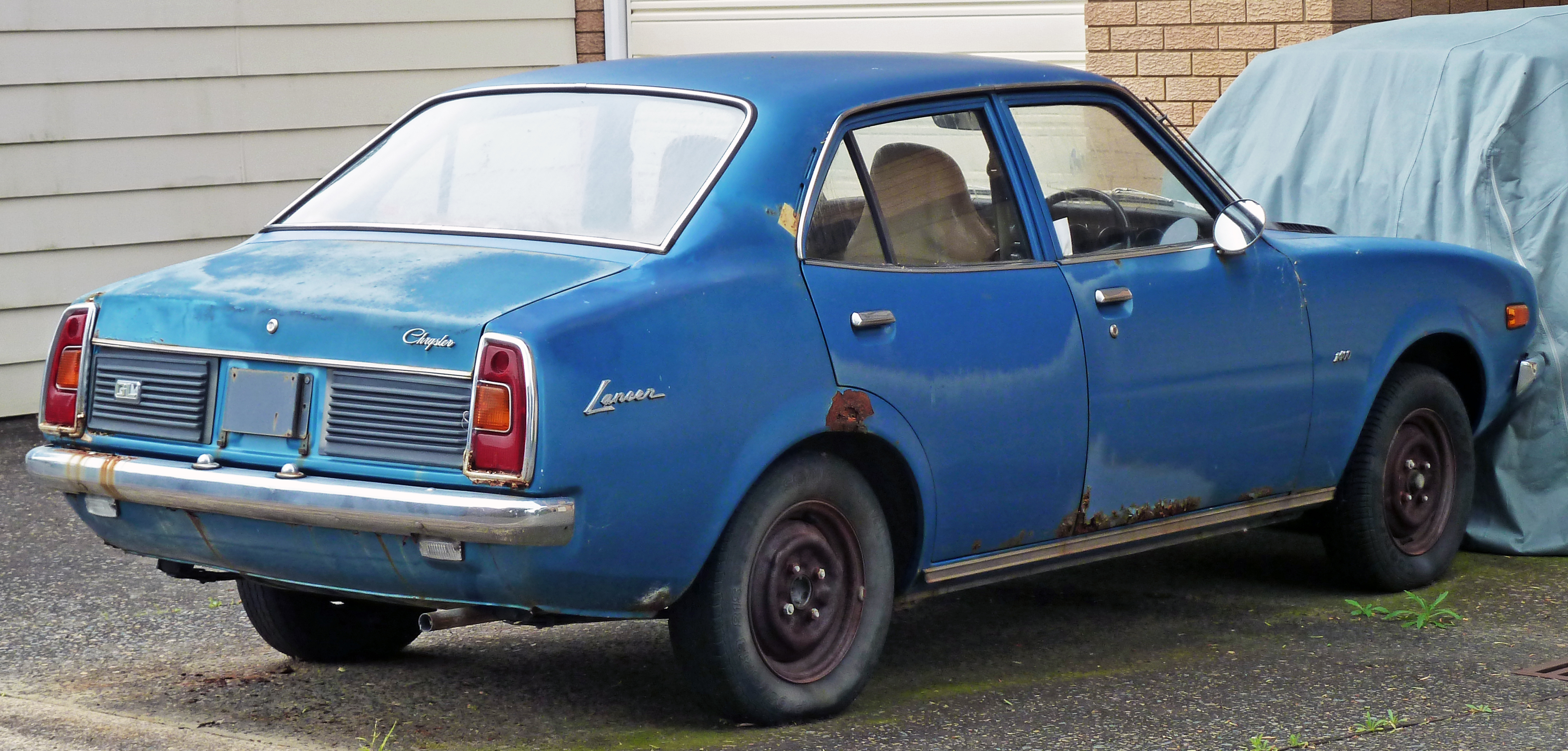 1976–1977 Chrysler Lancer (LA) GL sedan. The Lancer was introduced by Chrysler Australia in 1974 as the Chrysler Valiant Lancer; "Valiant" was dropped from the name in 1976. The updated LB series arrived in 1977. Photographed in Sandringham, New South Wales, Australia.